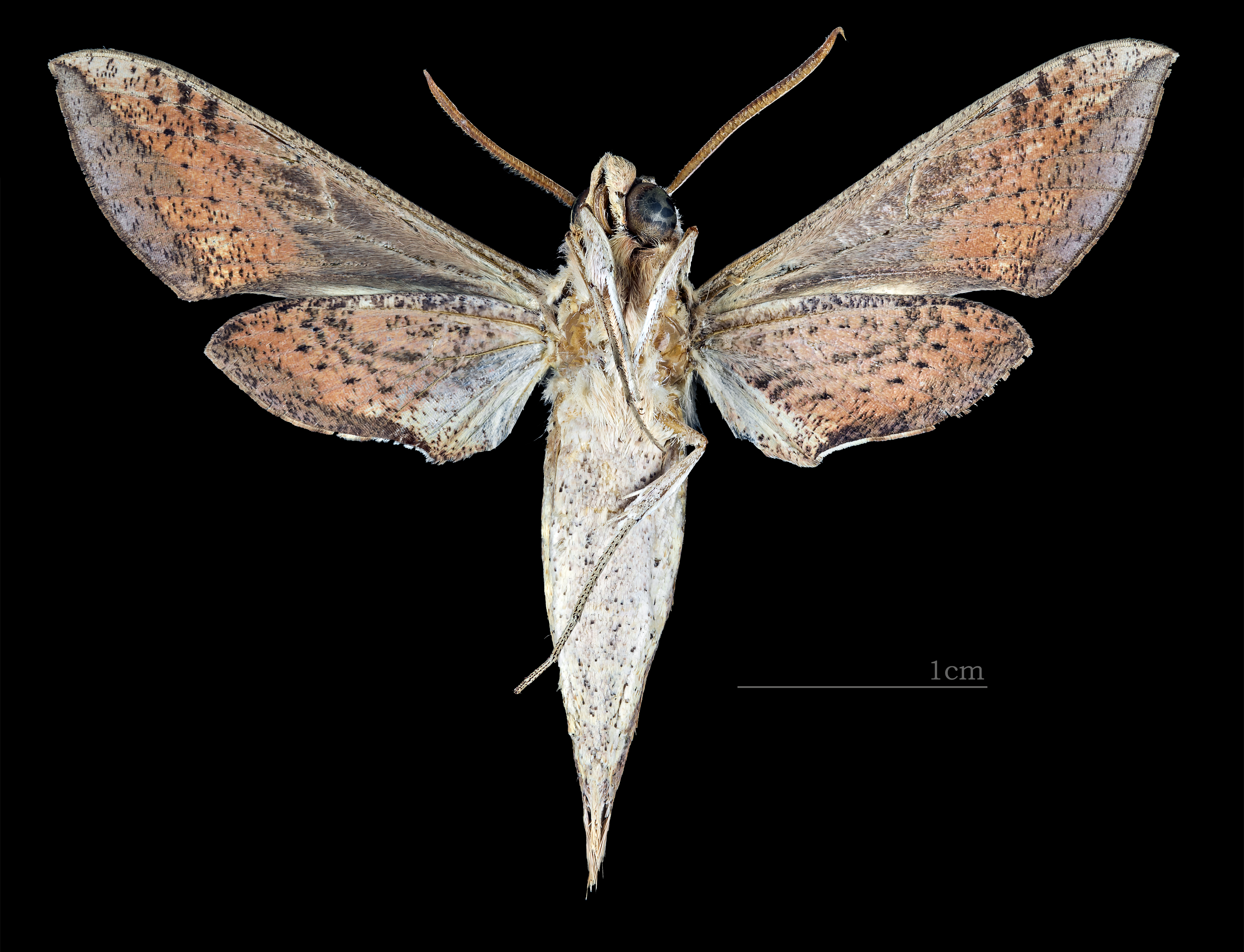 Xylophanes robinsonii - △ Ventral side Collection of the Mathematician Laurent Schwartz